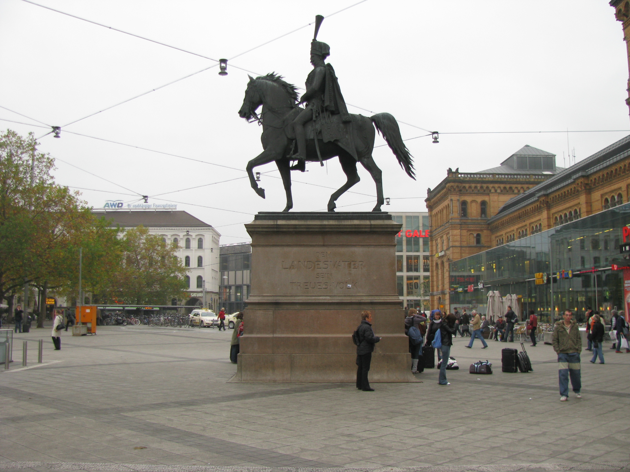 People gather "under the tail" of the equestrian statue of King Ernest Augustus I, in front of the Hauptbahnhof in Hannover.